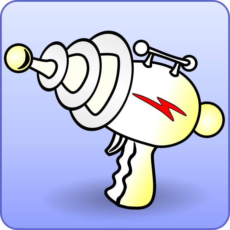 initially designed for a software project as main logo, but didn't win the logo contest/election